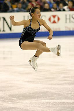 Jennifer Don performs a flying sit spin at the 2004 Four Continents Championships in Hamilton, Ontario, Canada.